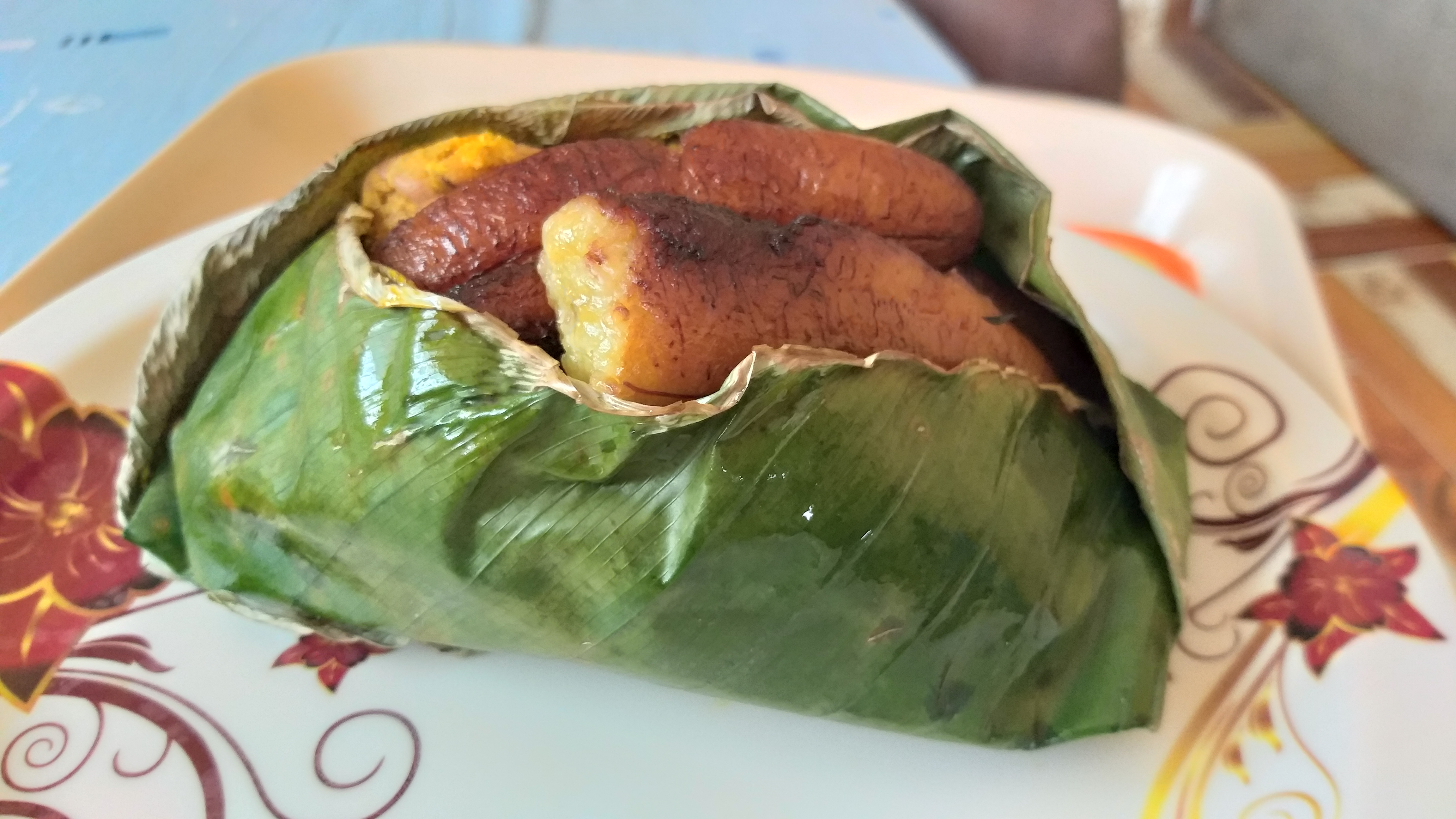 Katemfe leaves are porpularly used in wrapping food such as "Red Red" and waakye. This photo has been taken in the country: Ghana